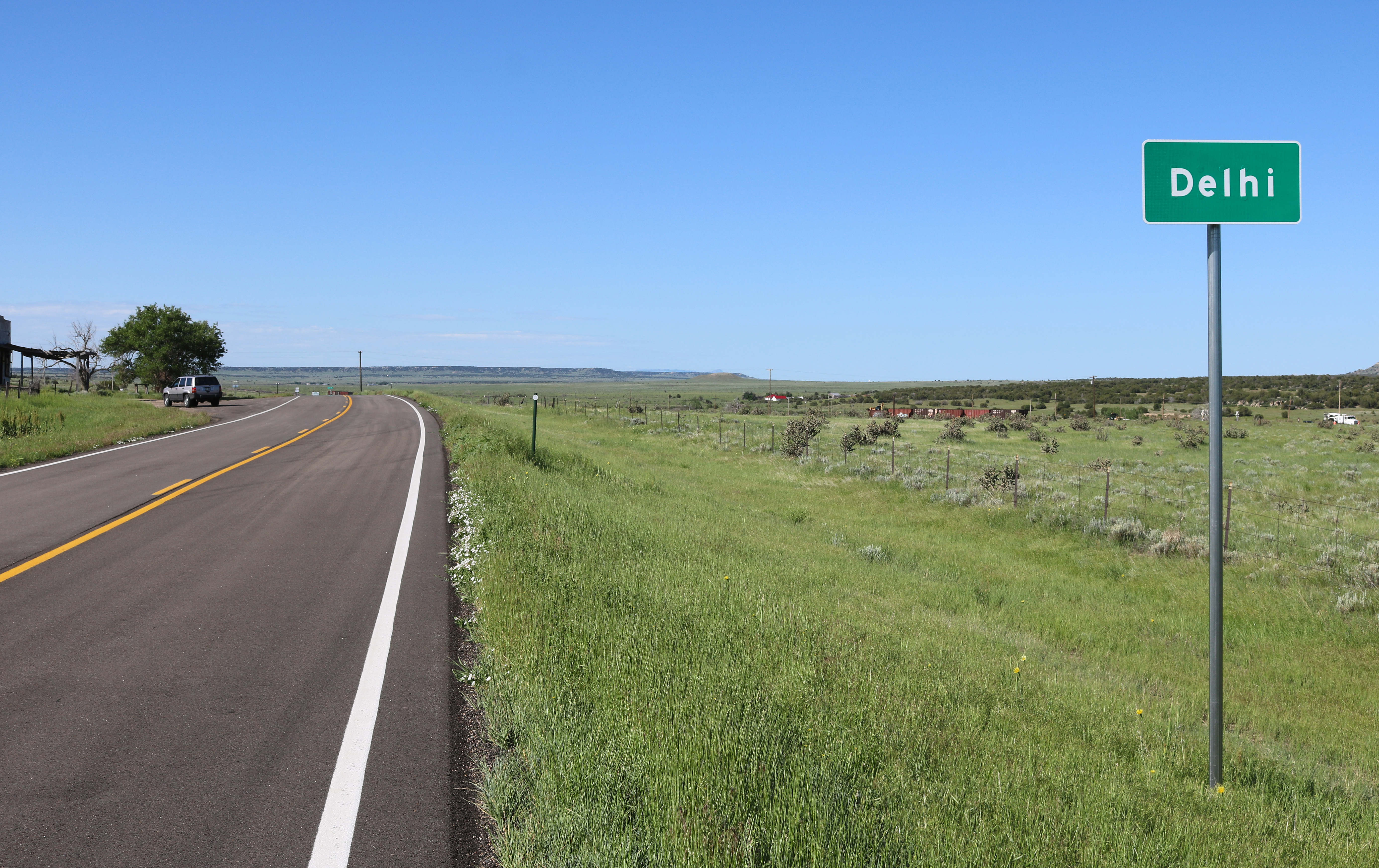 Delhi, Colorado and U.S. Route 350.